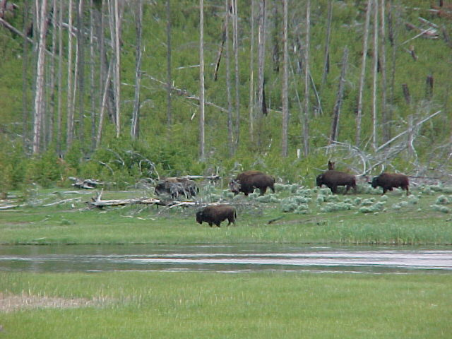 This small herd of bison were grazing and resting in an ecotone area of the park. This photo shows them resting in an open grassland, but near the edge a coniferous forest with many standing ghost trees.